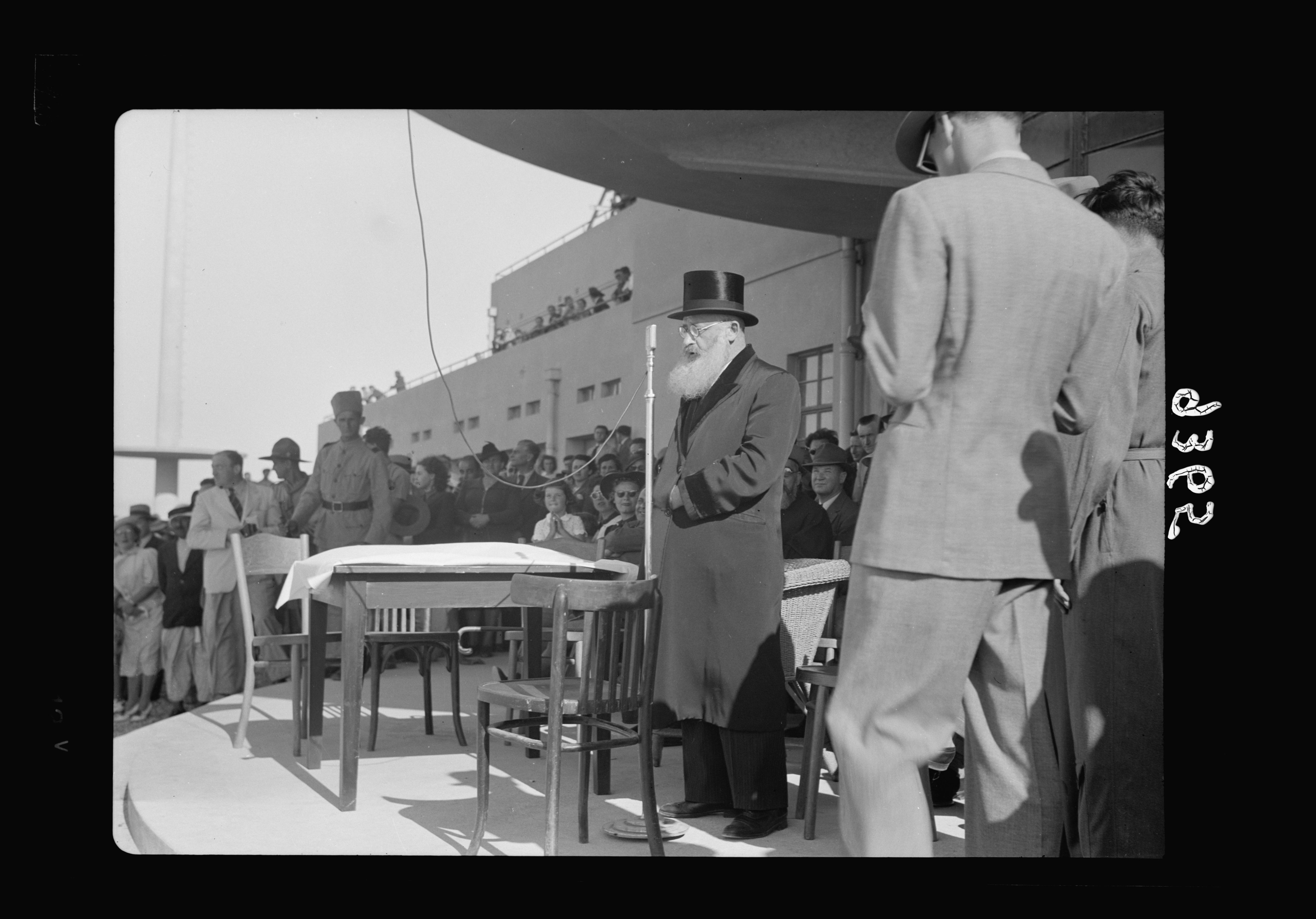 Title: Wings over Palestine-Certificates of Flying School, April 21, 1939. Dr. Herzog, Chief Rabbi of Palestine (Askenazim) addressing gathering thro[ough] loud-speakers [Lydda Air Port] Abstract/medium: G. Eric and Edith Matson Photograph Collection Physical description: 1 negative